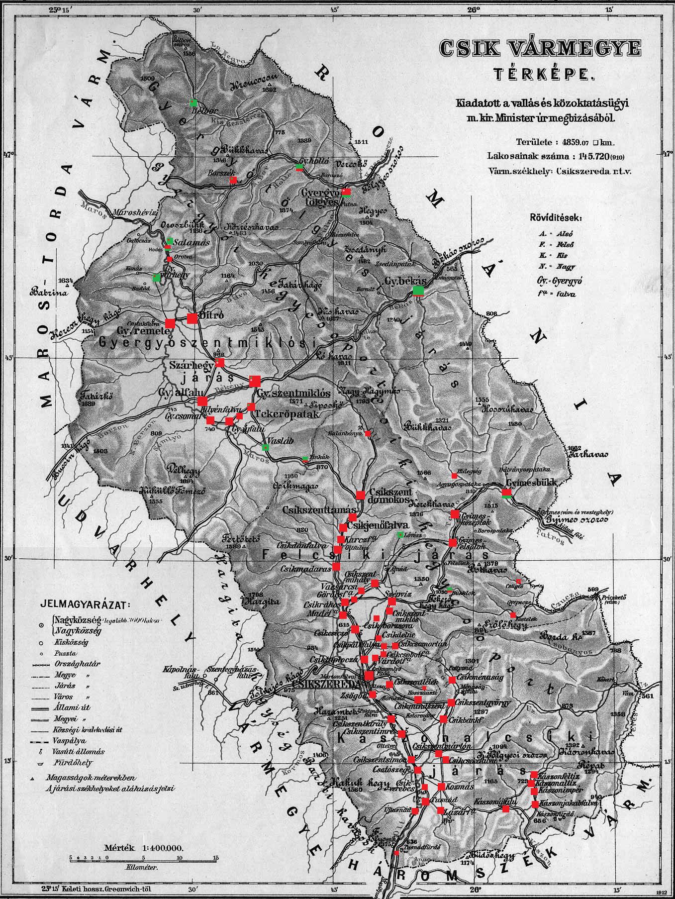 Ethnic map of the county (with data of the 1910 census). Key: red - Hungarians; dark green - Romanians; pink - Germans. Coloured dots in plain rectangles imply the presence of smaller minority populations (generally more than 100 people or 10%). Multicoloured rectangles imply cities and villages with multi-ethnic populations with the order of the stripes following the ethnic composition of the settlement.